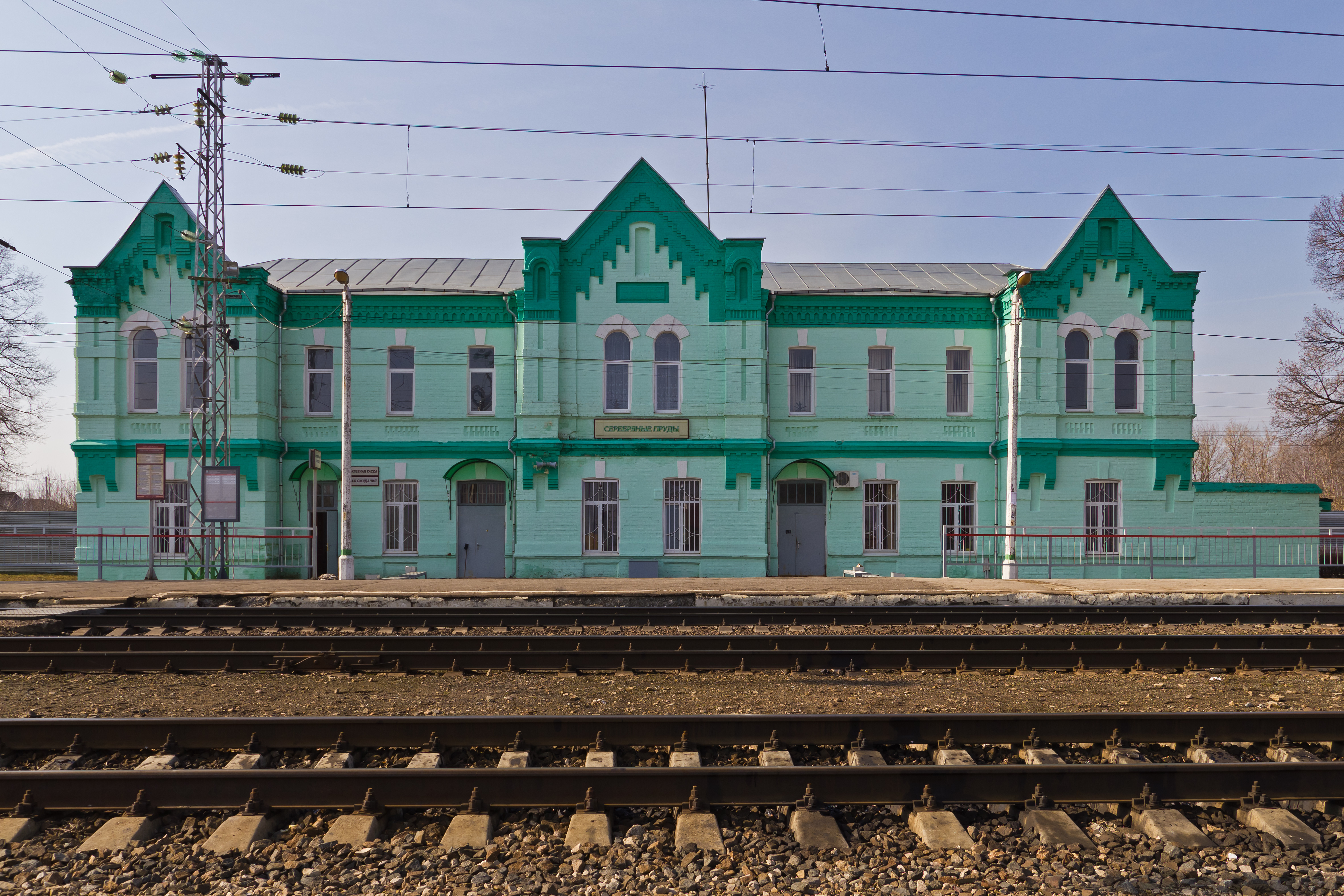 Building of Serebryanye Prudy station, Moscow Oblast, Russia.